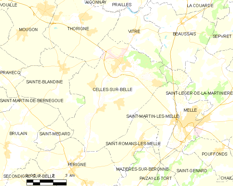 Map of French municipality Celles-sur-Belle